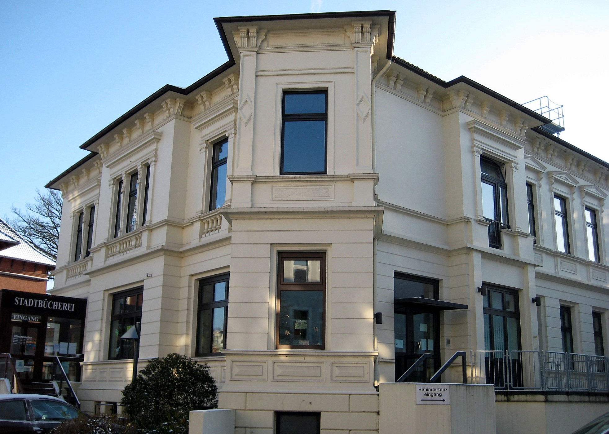 Public library in Bünde, District of Herford, North Rhine-Westphalia, Germany.